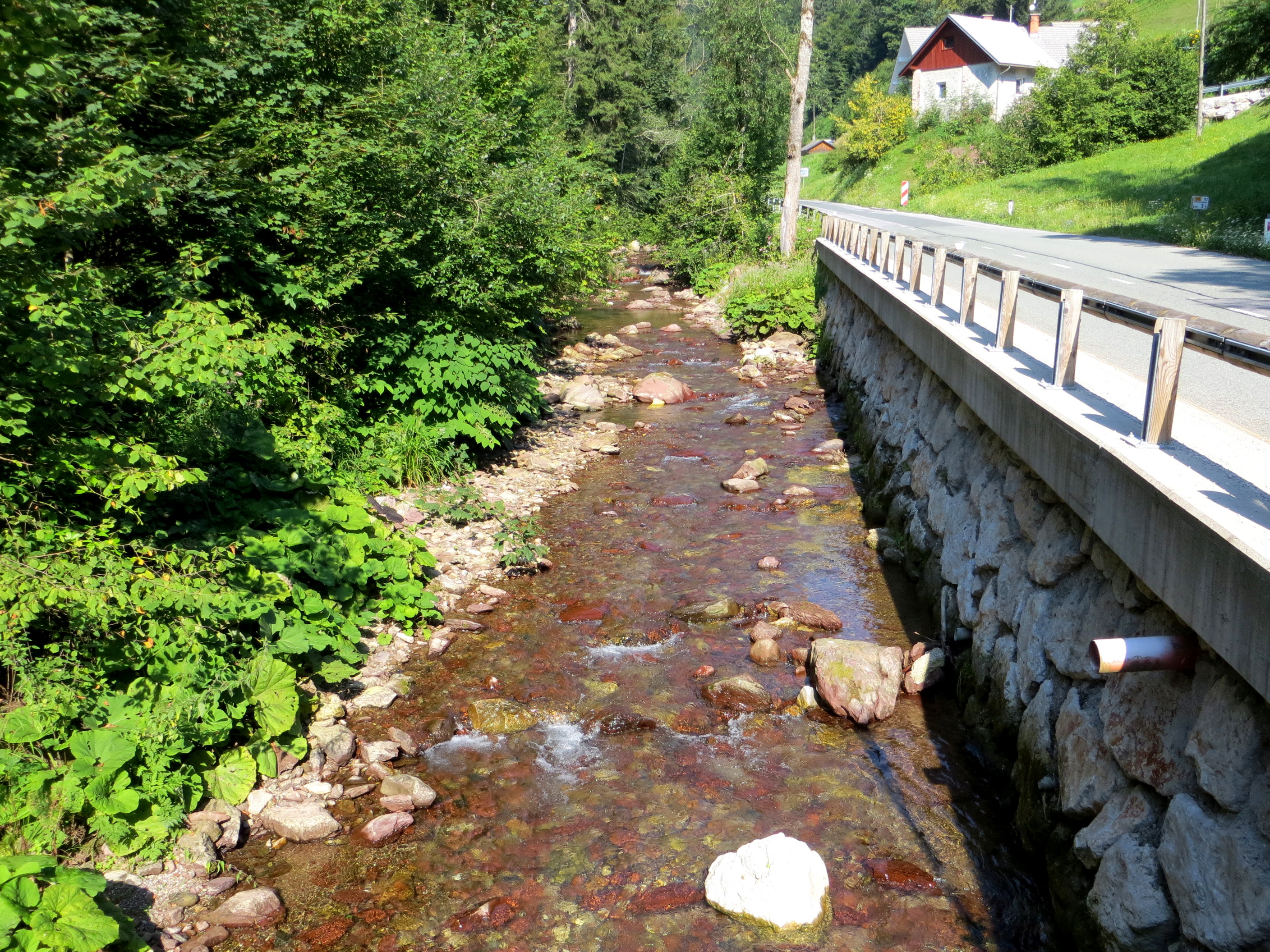 The Hobovščica River in Hobovše pri Stari Oselici, Municipality of Gorenja Vas–Poljane, Slovenia